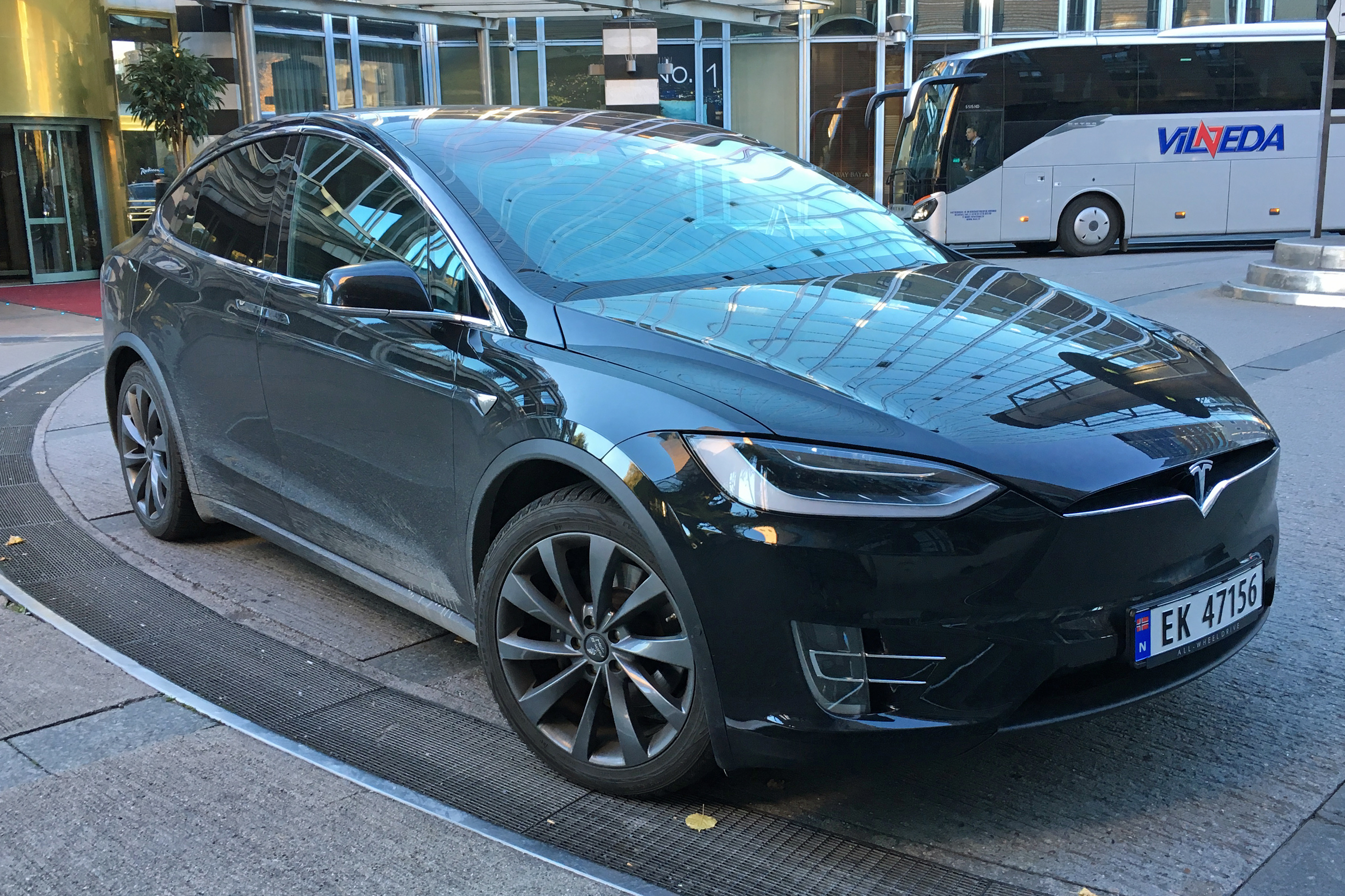 Tesla Model X in Oslo, Norway